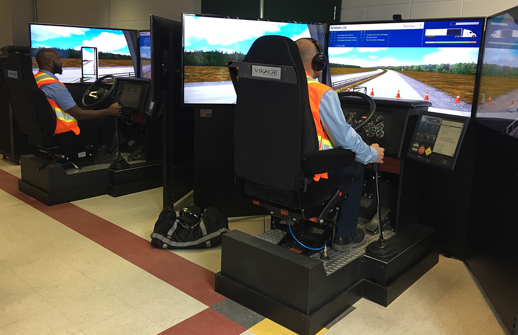 Example of truck simulators developed by Virage Simulation [ref] for Commercial Driver License (CDL) training, fuel efficiency training, defensive driving, skid control, rollover prevention and driver assessment at the Road Transport Training Centre (CFTR) in Mirabel, Canada.